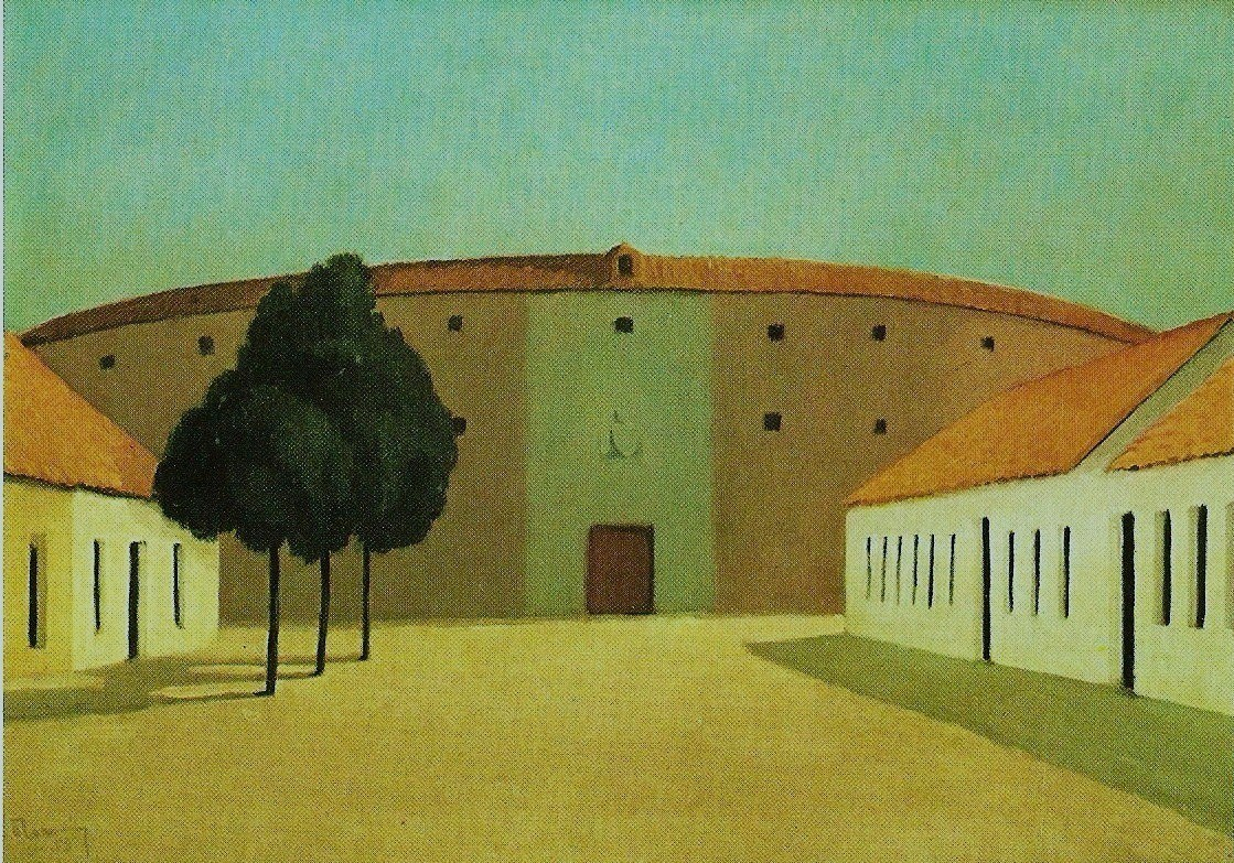 Aranjuez, 53 x 81 cm, oil on canvas, 1955.